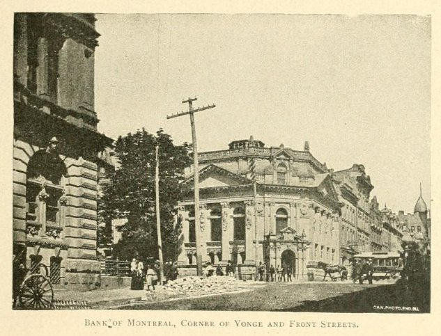 Photograph from the work cited. Shows the building now used as the Hockey Hall of Fame in Toronto, operating as a Bank of Montreal branch in the 1890s.